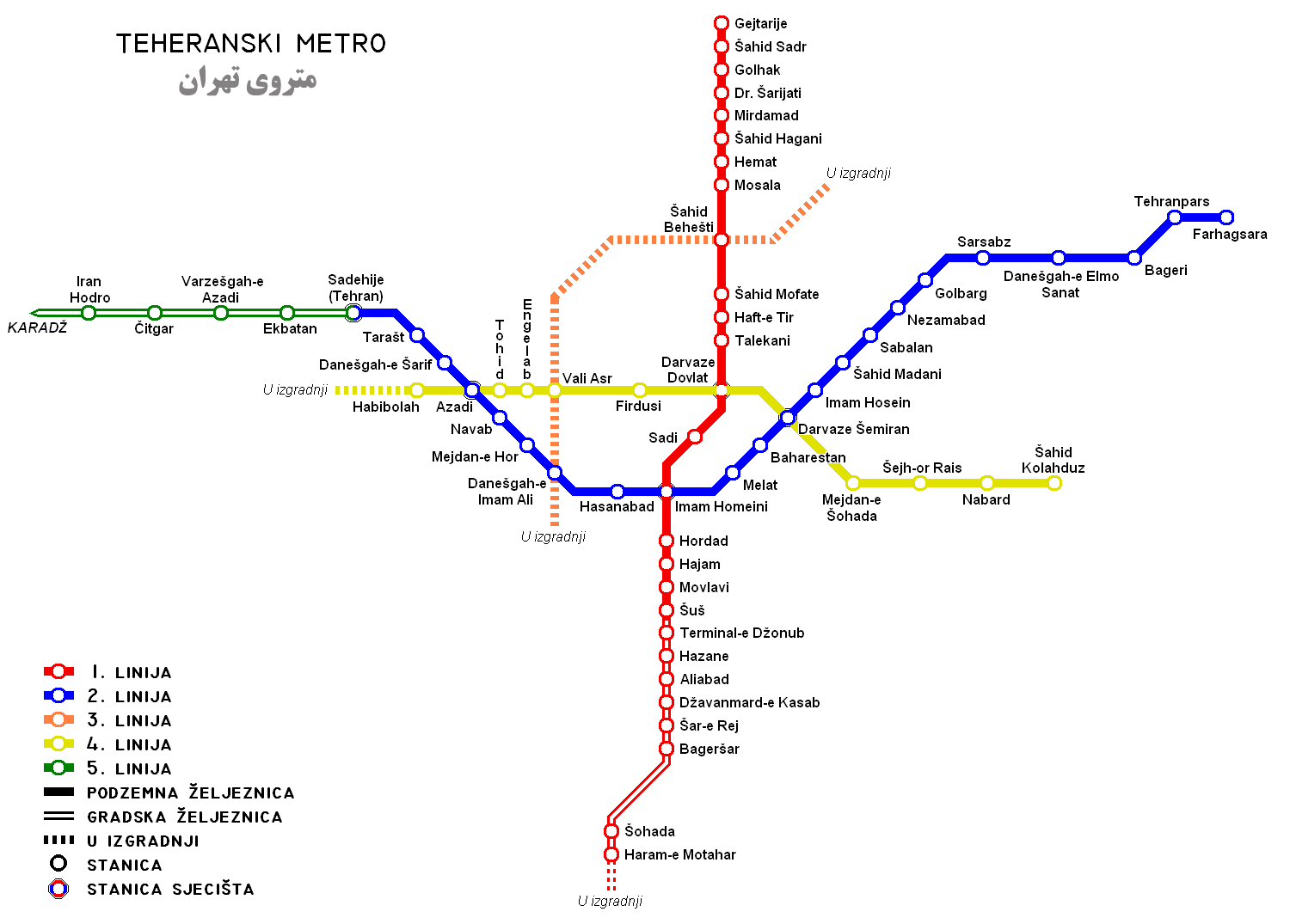 Tehran Metro lines as of September 2011 (Croatian description)